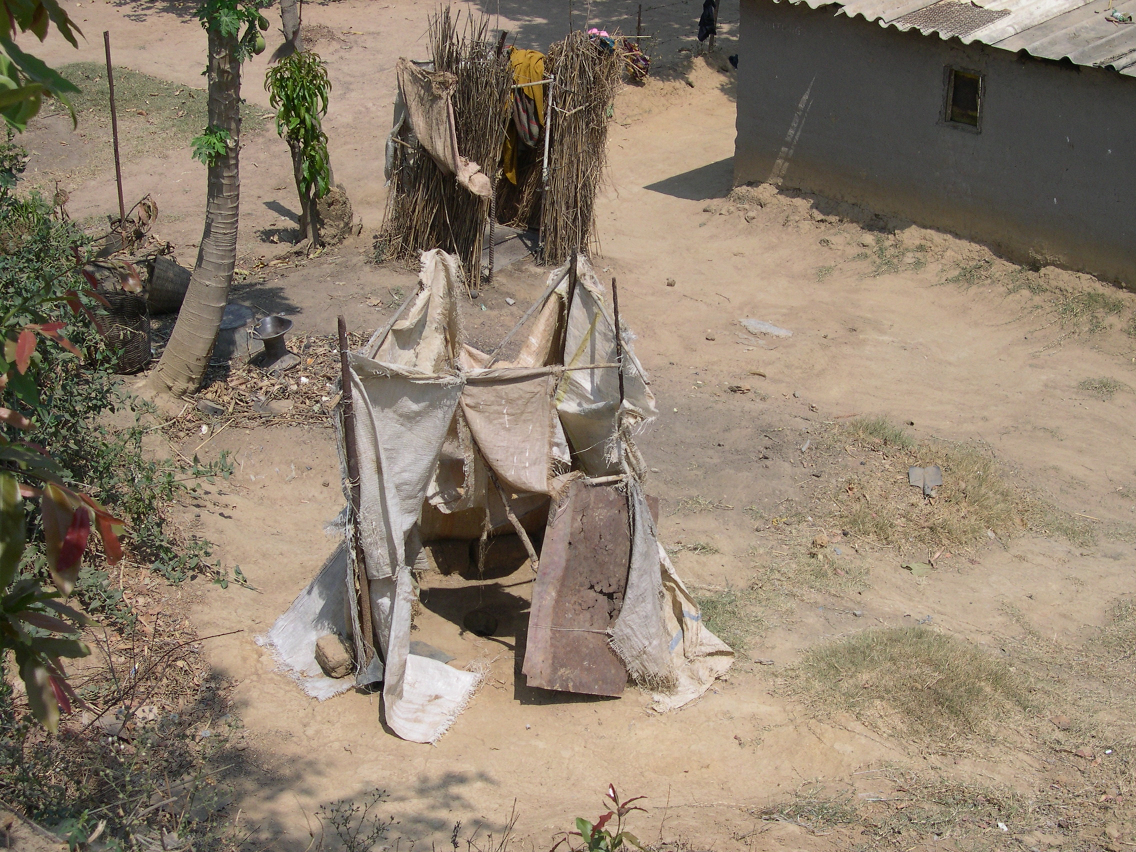 Photo by D. Schäfer 2004